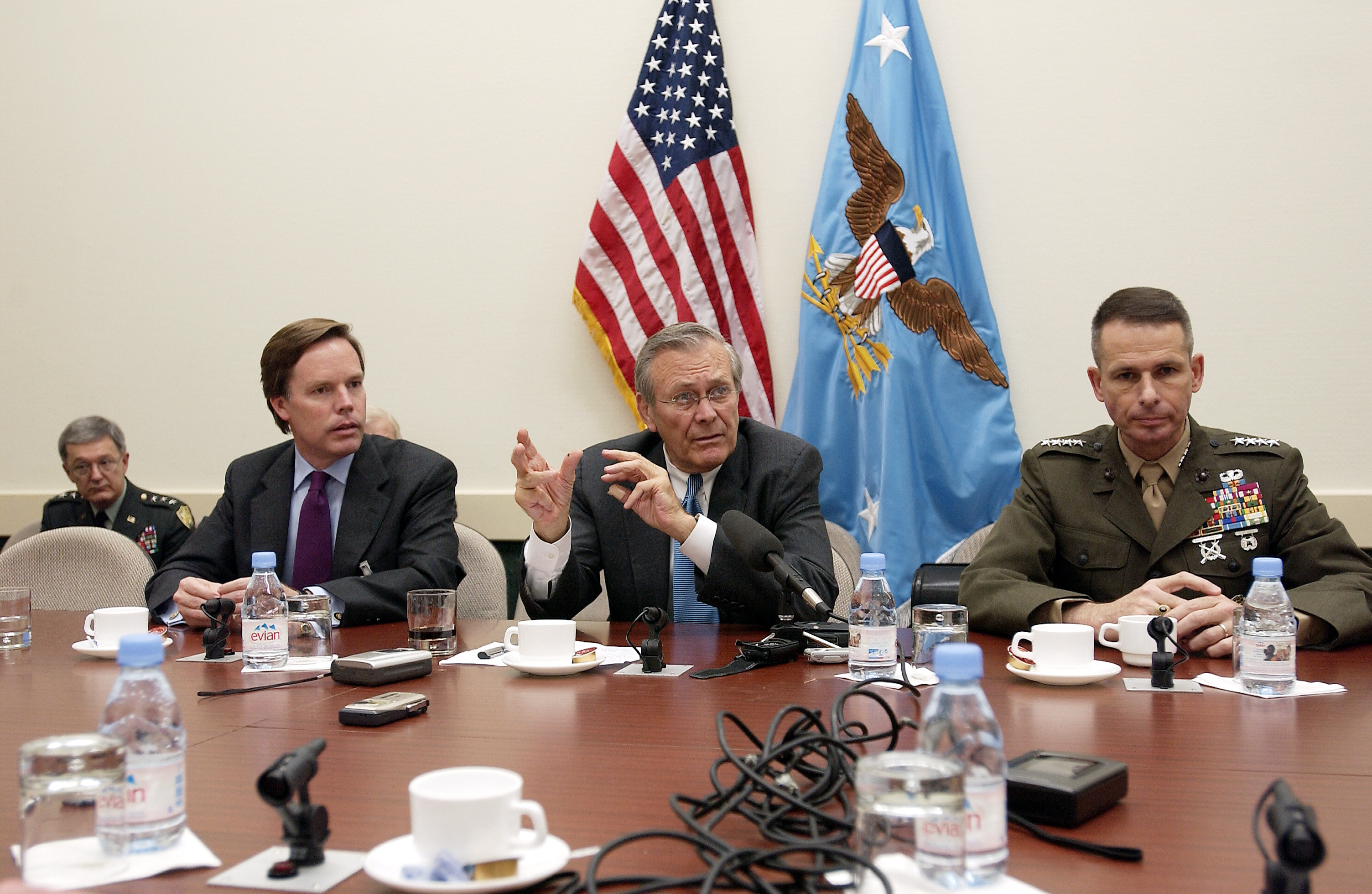 Secretary of Defense Donald H. Rumsfeld (center) responds to a reporter's question during a press conference at NATO headquarters in Brussels, Belgium, on Dec. 2, 2003. U.S. Ambassador to NATO R. Nicholas Burns (left) and Vice Chairman of the Joint Chiefs of Staff Gen. Peter Pace (right), U.S. Marine Corps, joined Rumsfeld as he updated the press on the progress of the meetings. Rumsfeld is at NATO headquarters for a two-day meeting of allied defense ministers to discuss expanding NATO's mission.